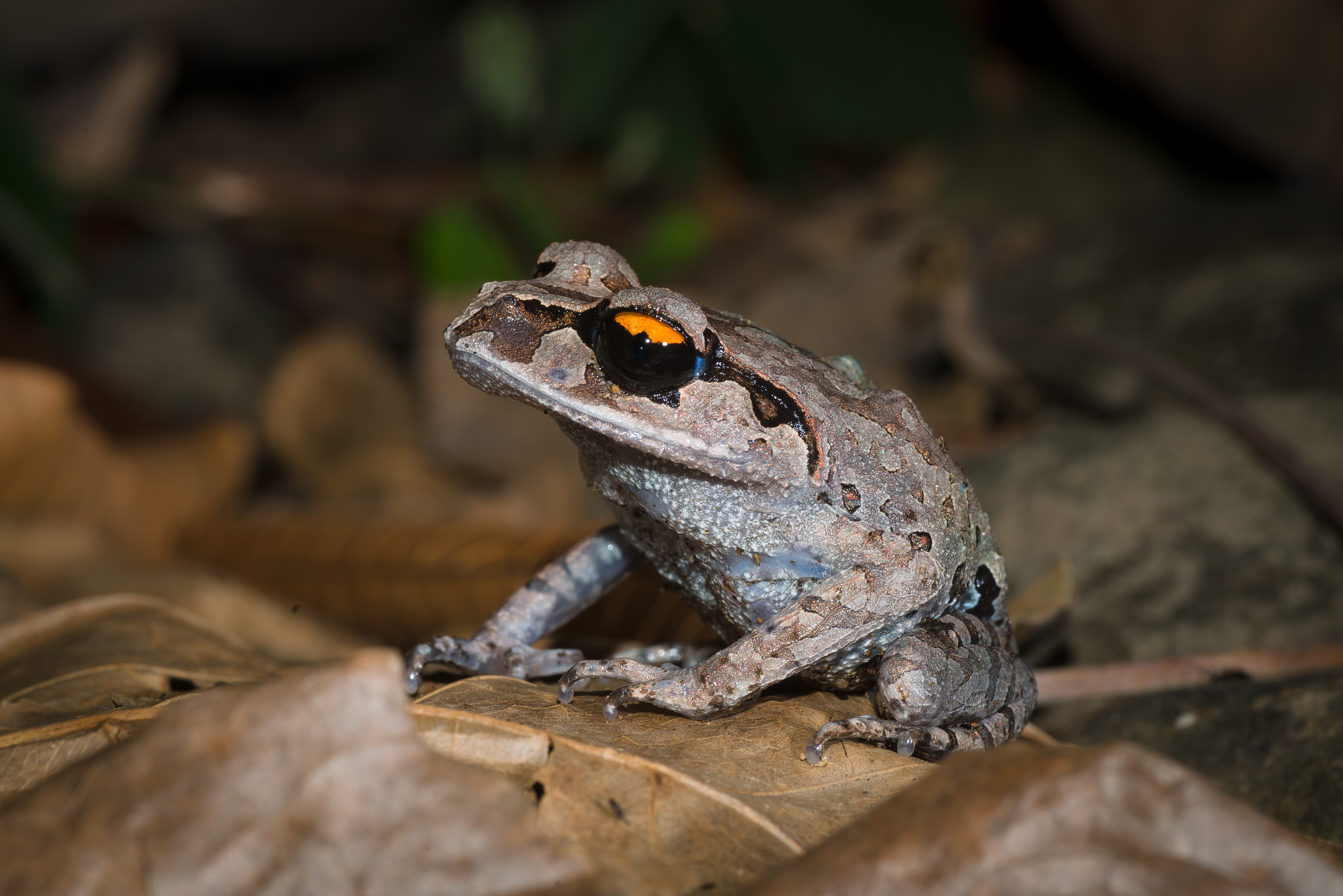 Leptobrachium smithi, Smith's litter frog - Kaeng Krachan National Park. Photo by Thai National Parks